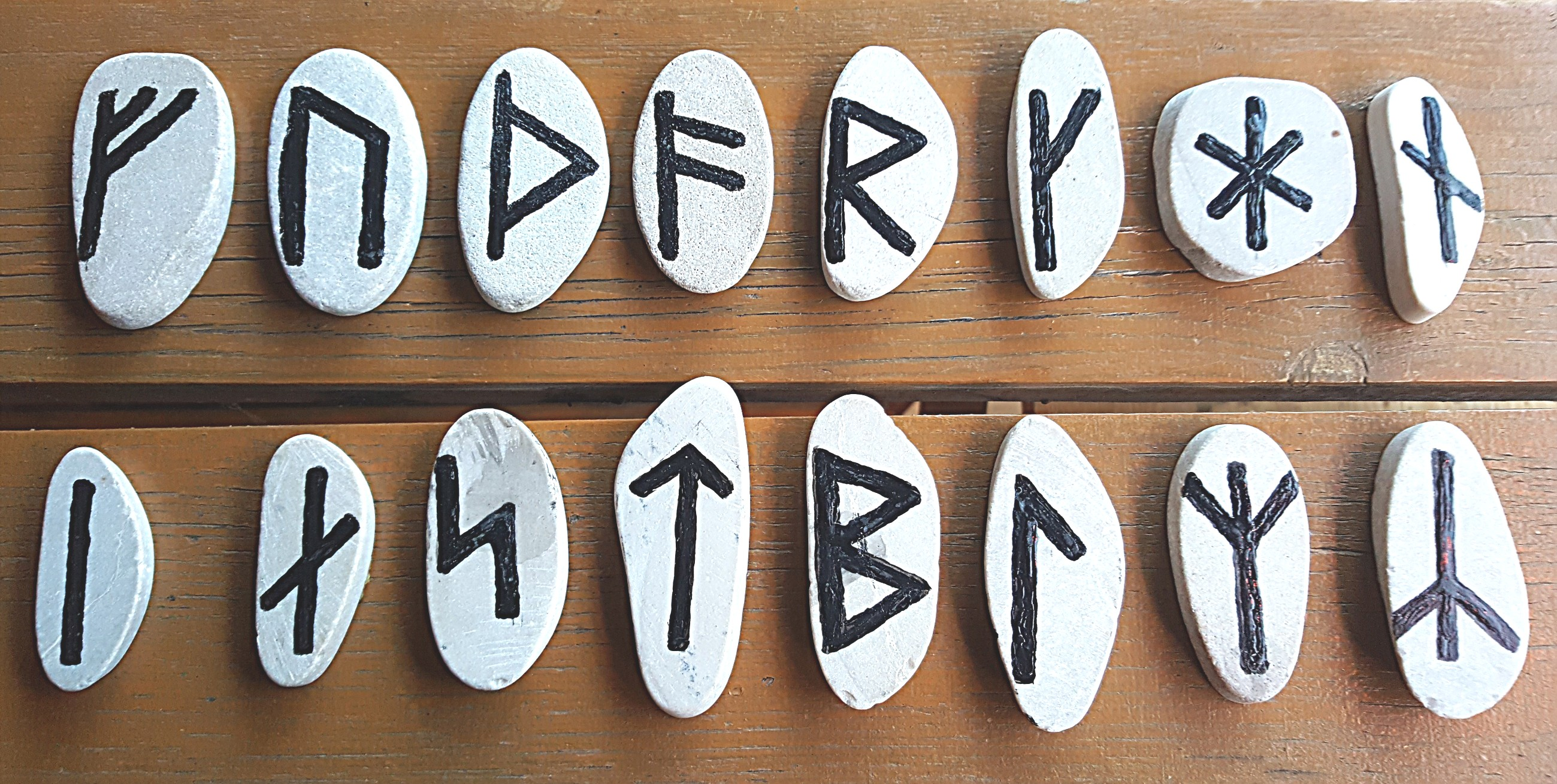 The runes of the Younger Futhark are painted on little flat stones. Length of the stones: 4.5 (Hagalaz rune) to 6.5 centimetres (Tiwaz rune). The rune stones were made in Desenzano del Garda, Italy, in August 2017.